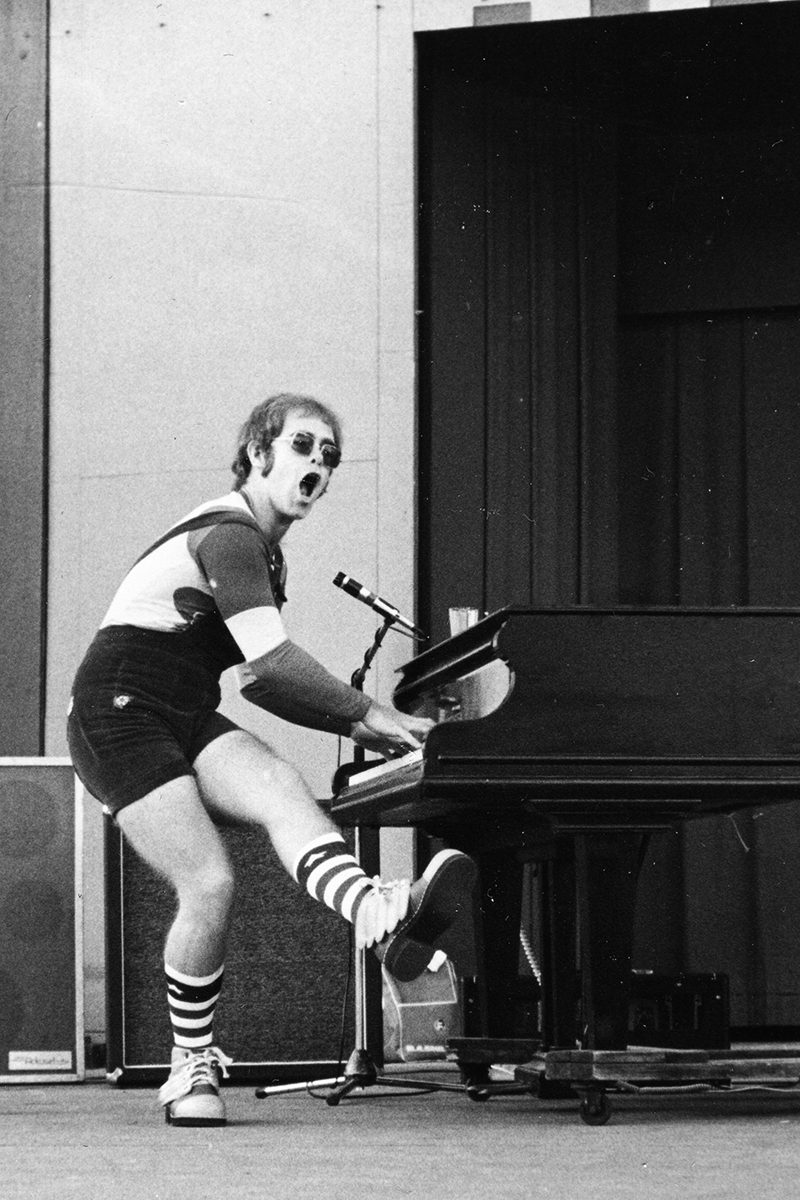 Elton John in concert at Liseberg, in 1971.